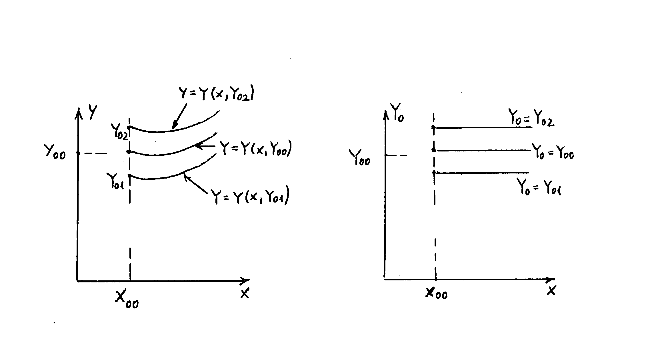 Application of integrability of differential forms to differential equations